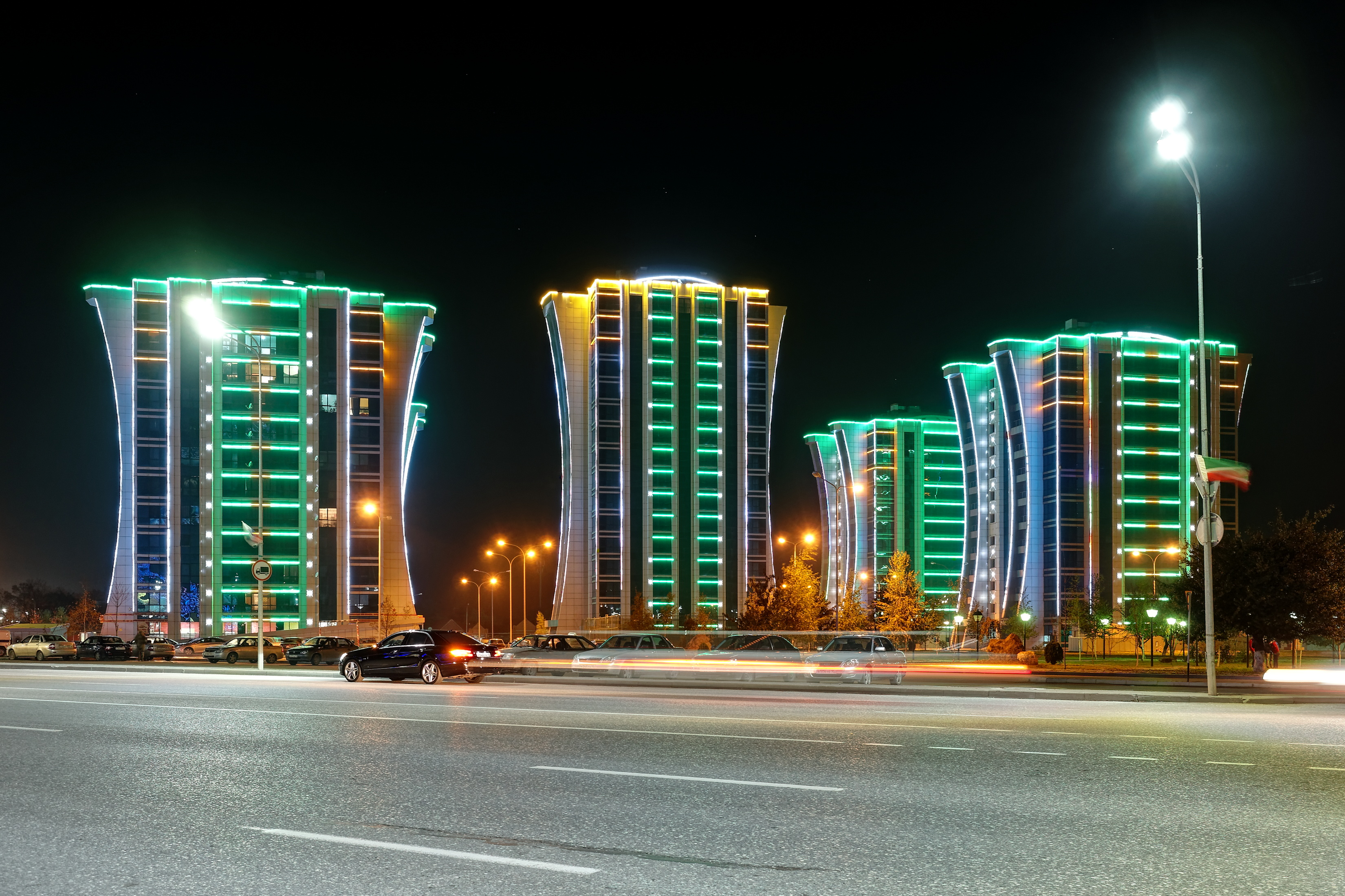 Argun